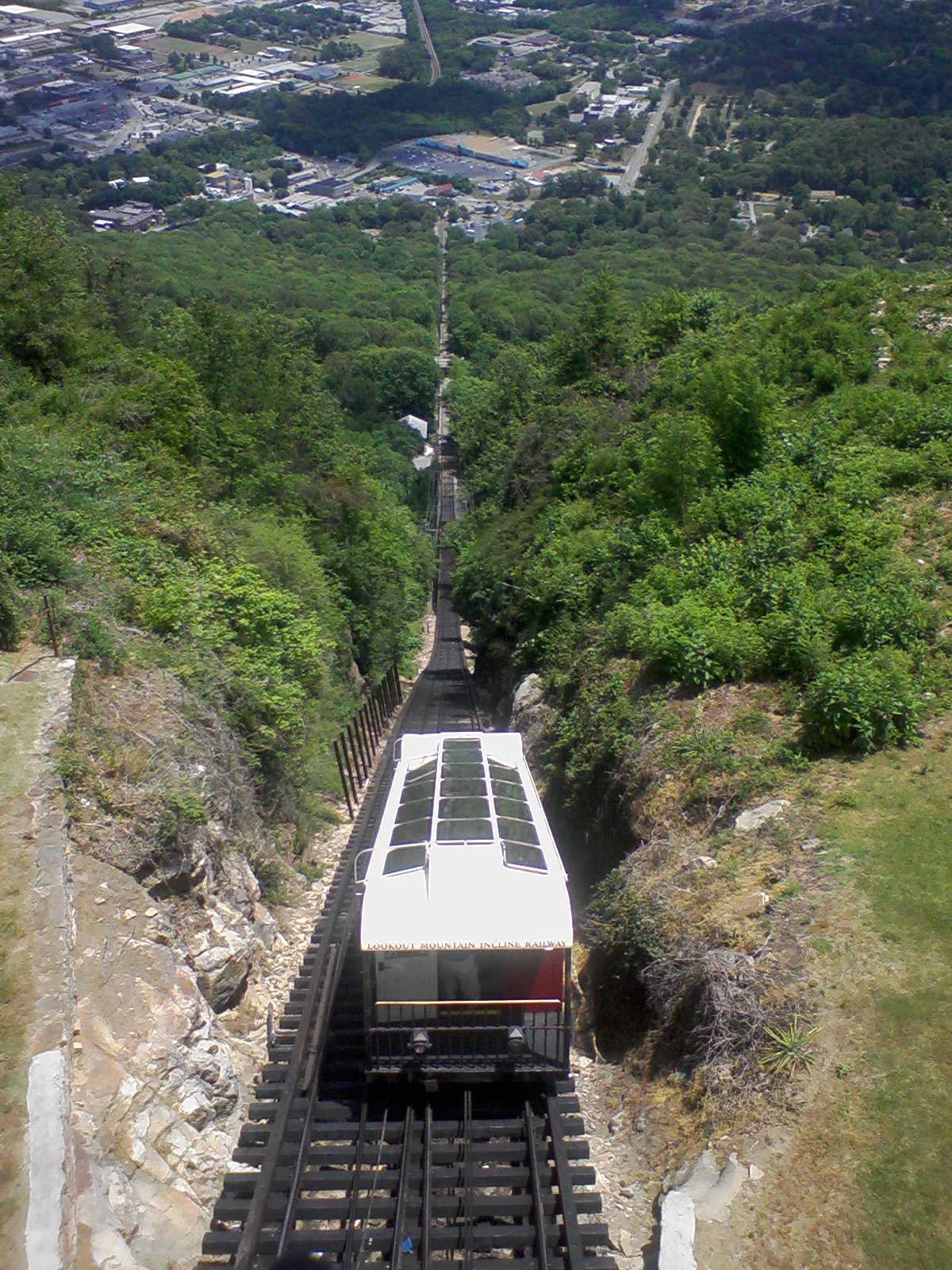 The Lookout Mountain Incline Railway, as seen from the top of Lookout Mountain. The rail runs a mile's length down the side of the mountain.